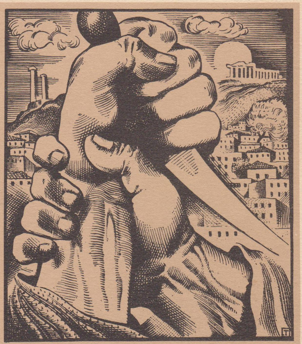 “The dagger”. Created by etcher Tassos (1914-1985), after aggression of Mussolini against Greece on October 28, 1940. Scanned from magazine «Νεοελληνικά Γράμματα» dated November 16, 1940.